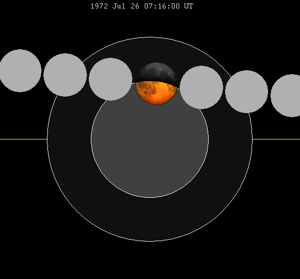 July 1972 lunar eclipse chart of moon's path through the earth's shadow. thumb